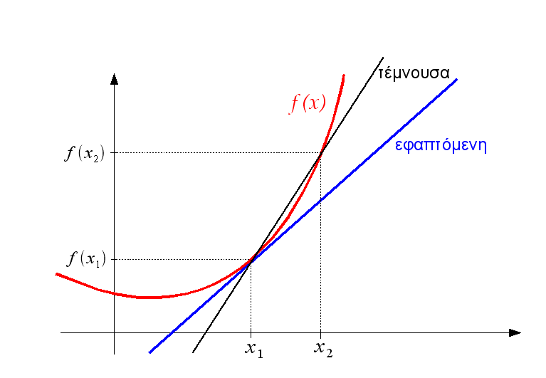 Tangent of a function